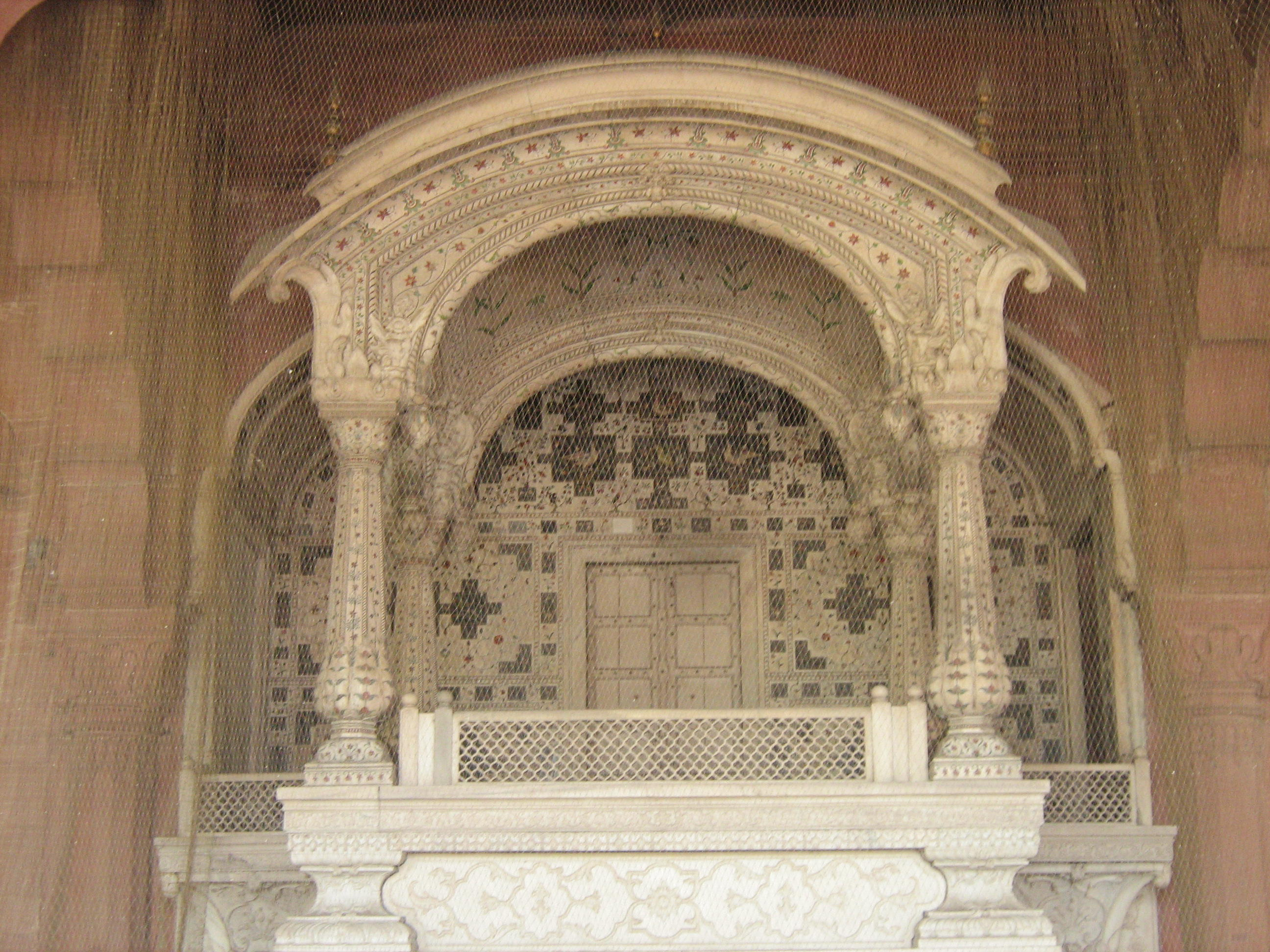 Deewan-E-Aam of Red Fort.